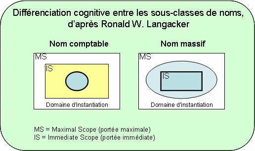 Schema for cognitive differenciation between count nouns and mass nouns, according to Ronald W. Langacker